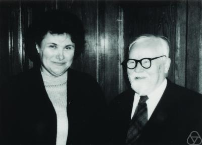 Olga Arsenievna Oleinik and Andrey Nikolayevich Tychonoff 1976.